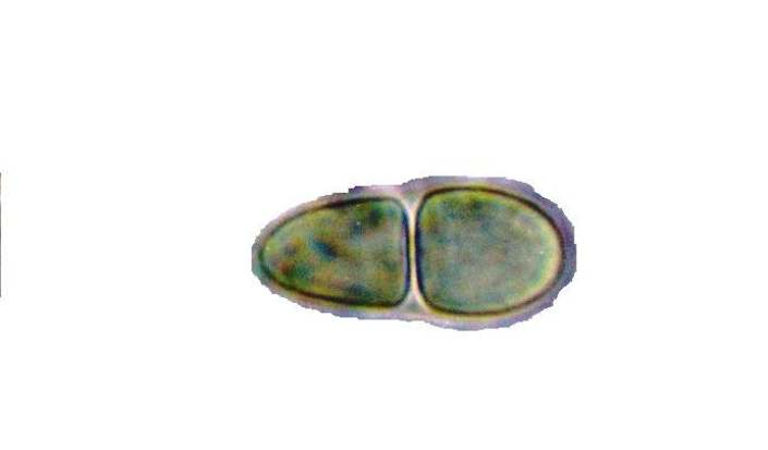 Rhizocarpon hochstetteri (Körber) Vainio, 1922 Photograph of a 1-septate spore from an apothecium of Rhizocarpon hochstetteri taken through a compound microscope, x1000. Spore length 20-25 microns. Rhizocarpon hochstetteri was growing on a stone about 500 feet S of Cabin No. 1. at the Humboldt Field Research Institute on Eagle Hill at Steuben in Washington County, Maine, USA (Lat. 44o27.5' N, Long. 67o55.5' W). Collected and identified by E.C. Uebel (No. U-137, 9 Jun 2001).